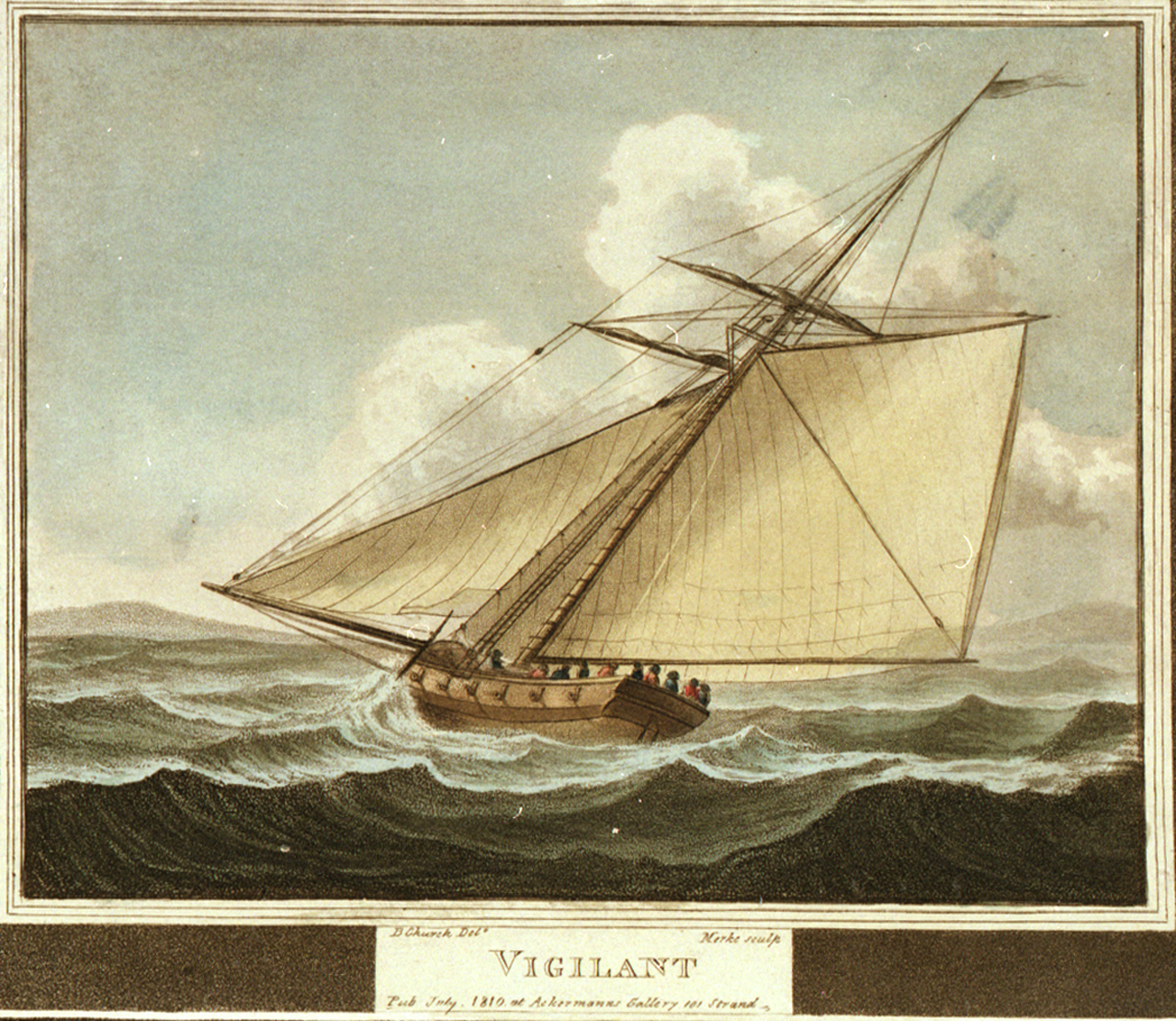 Vigilant Hand-coloured.; Plate No. 4.